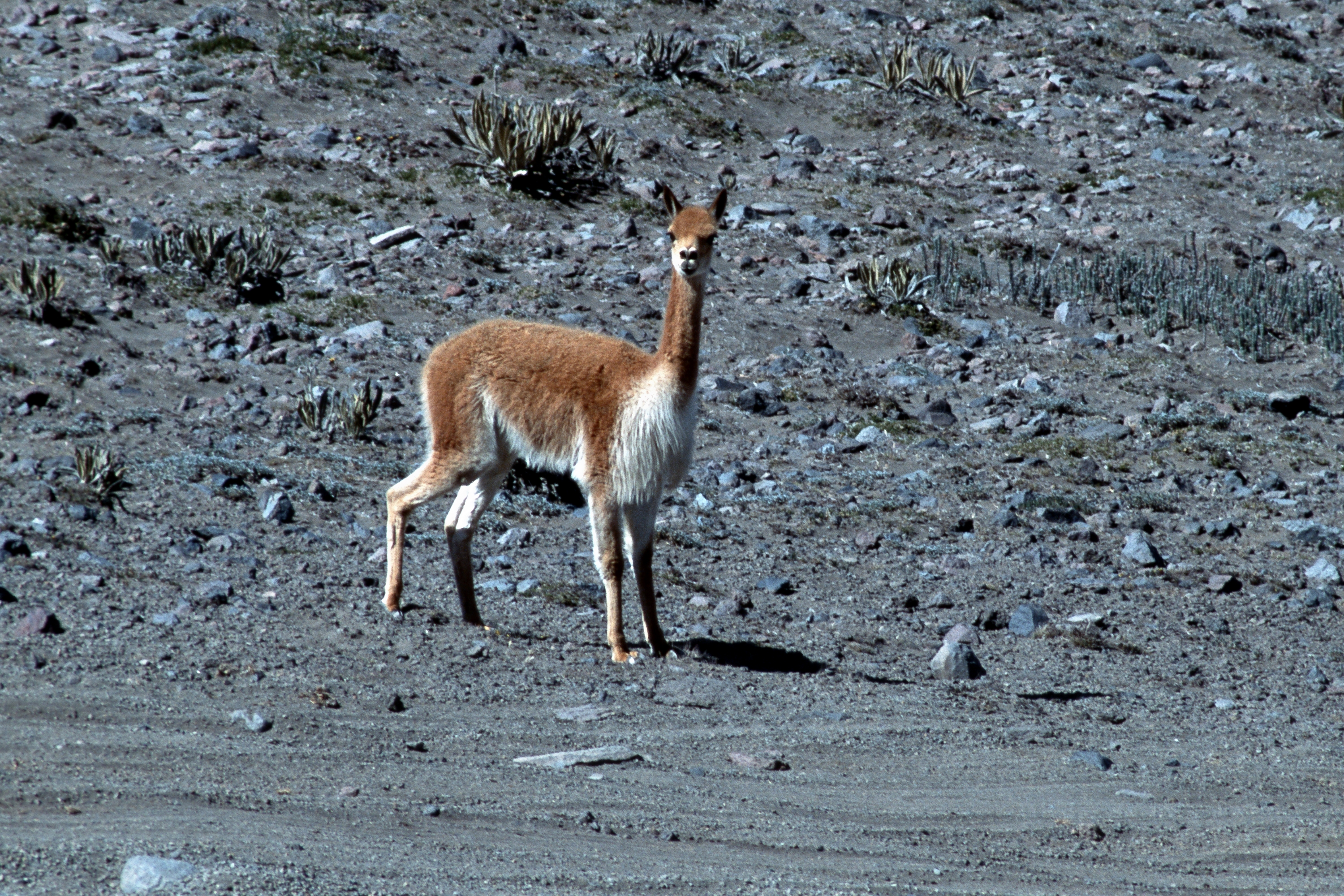 Vicuña on Chimborazo